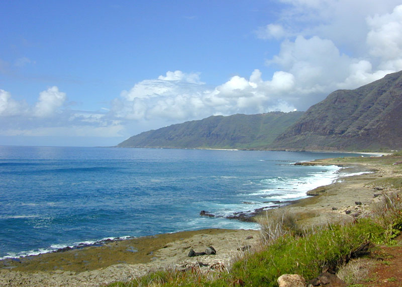 Kaena Point, O'ahu photographed from lookout at Kaneana by Eric Guinther (c) on December 7, 2003 and released under the GNU Free Documentation License.